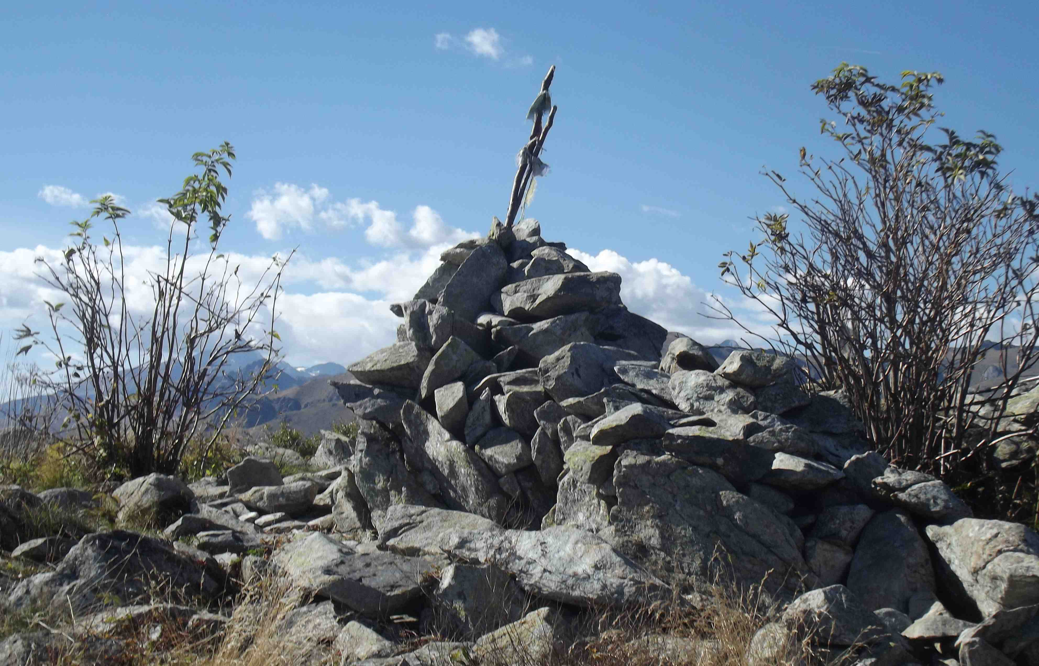 Monte Sapei (Alpi Graie)